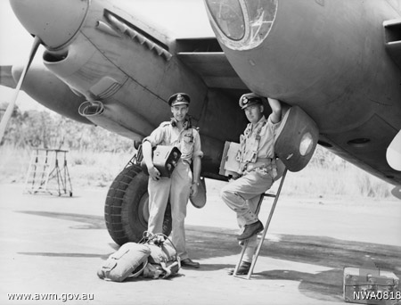 AWM Caption: Coomalie, NT. 21 March 1945. Returning to their North Western Australia base are 402733 Pilot Officer Allan Davies of Wentworth Falls, NSW (left) and his navigator 439909 Flying Officer J. S. Reynolds of North Sydney, NSW. They have their hands full with an aircraft camera, magazine and navigation data as they leave their De Havilland DH.98 Mosquito aircraft of No. 87 (Photograph Reconnaissance Flight) Squadron RAAF.